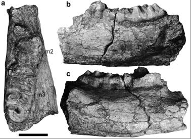 Right fragmented mandible ramus of Sinomammut tobieni (holotype) with second and third molar. (a) Occlusal view; (b) Lingual view; (c) Labial view. Scale bar: 10 cm.